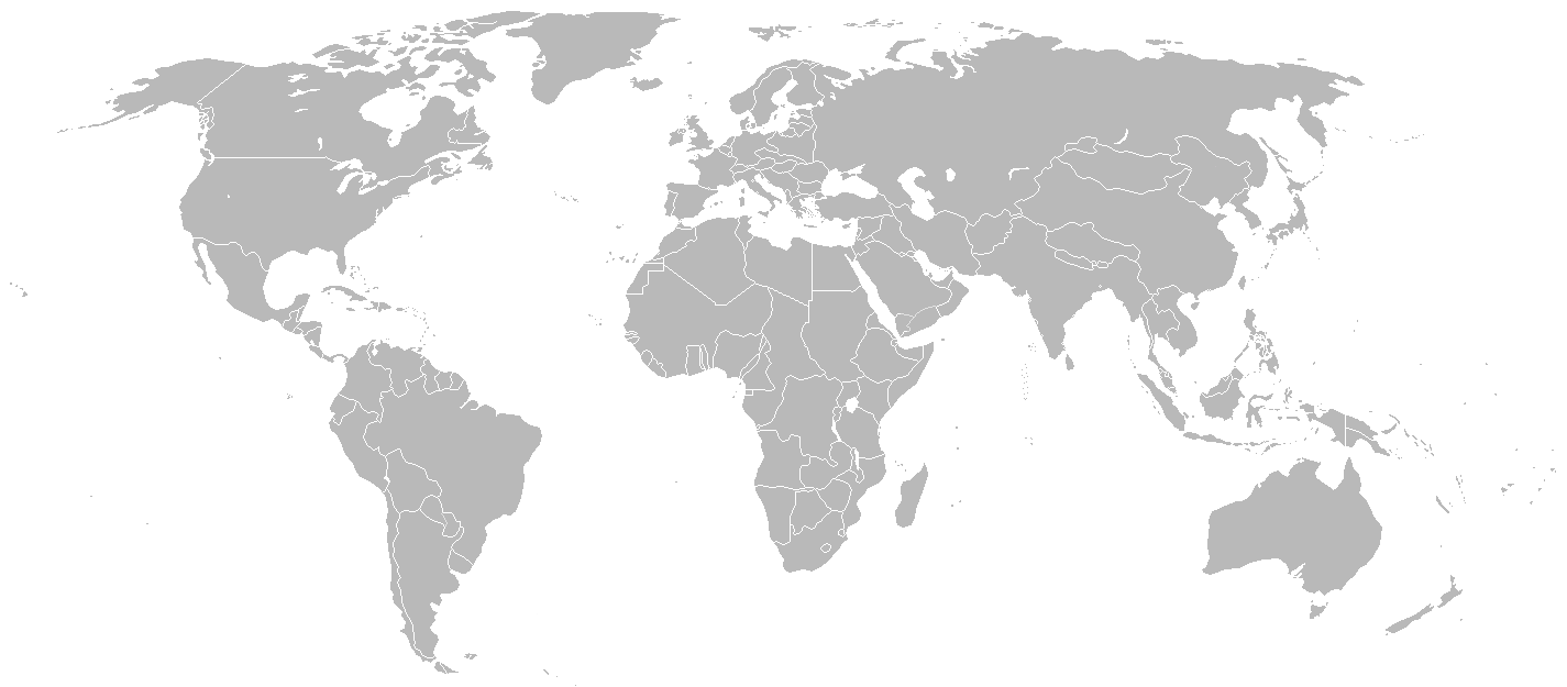 Map of the world in 1935.